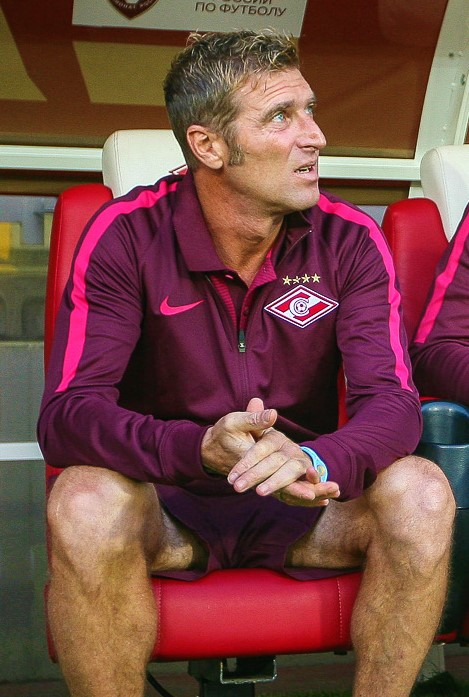 Massimo Carrera